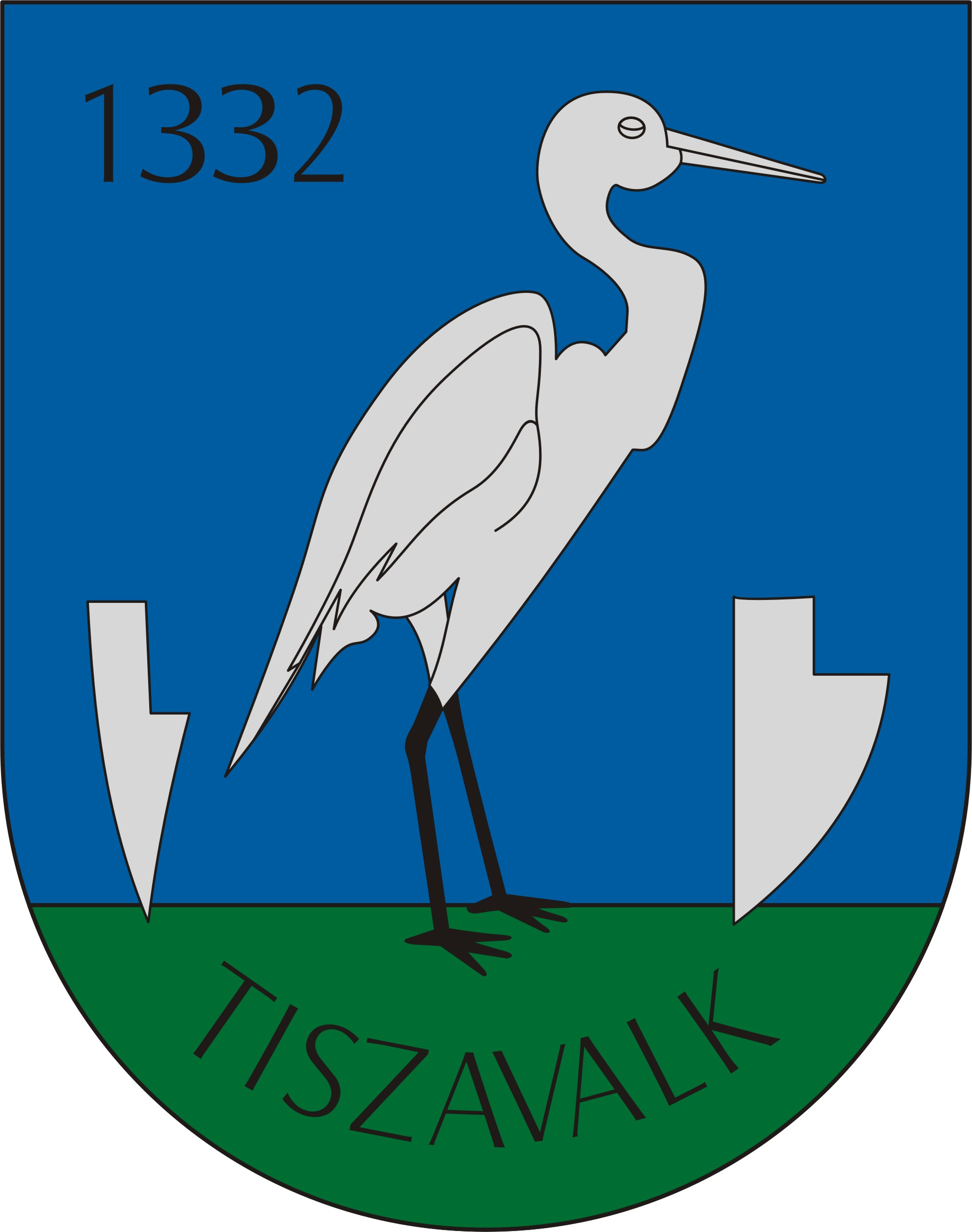 Coat of arms of Tiszavalk, Hungary